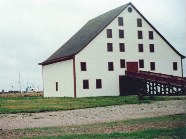 Historical building which was used for the fishermen at Paspébiac, Gaspesia, Quebec.